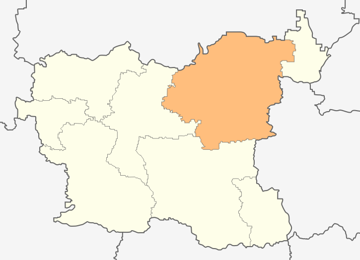 Map of Lovech municipality, Lovech Province